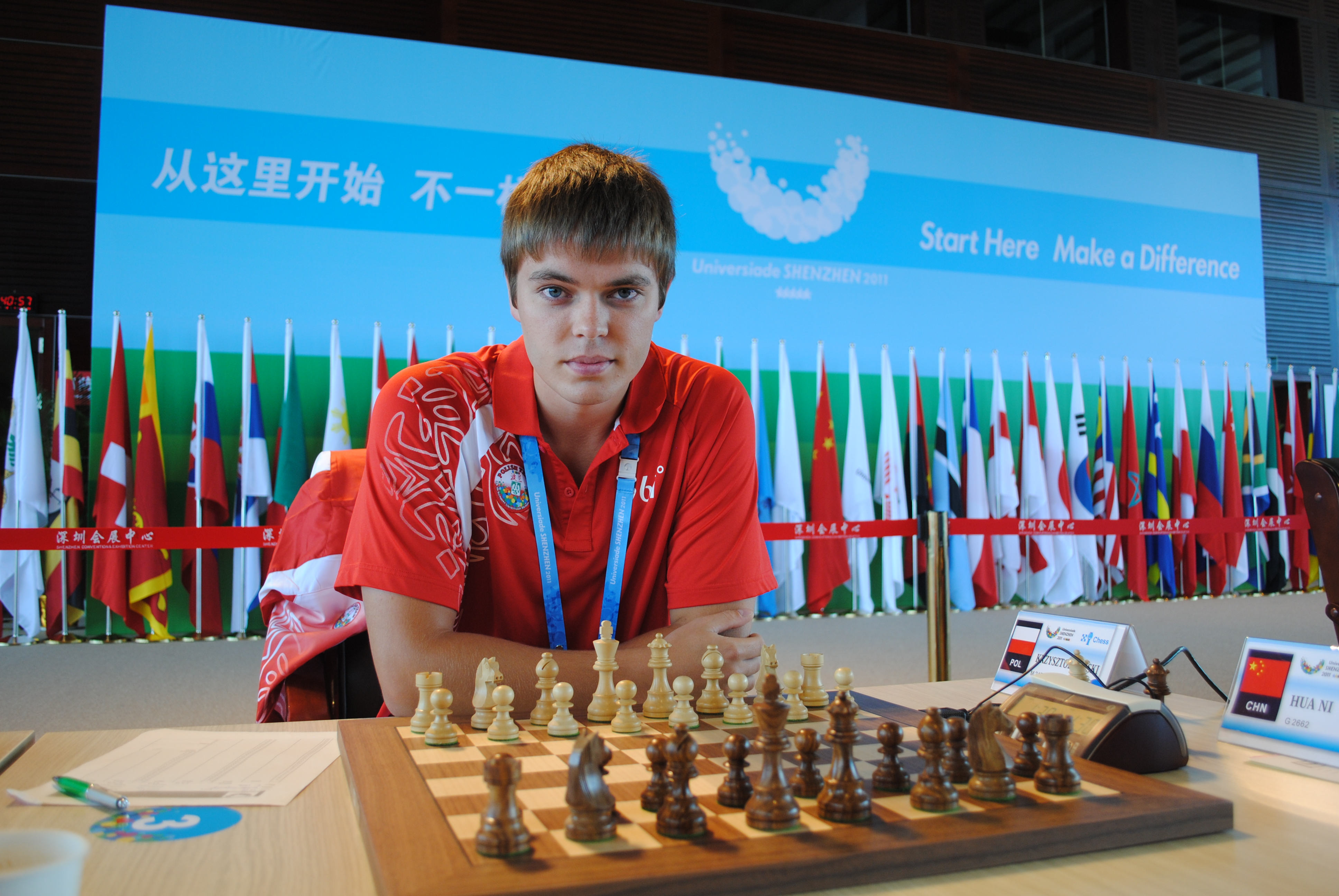 Czarnota Pawel China 2011